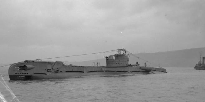 IWM caption : HMSM TACITURN secured to a buoy in Plymouth Sound. Fitted with schnorkel but no 20-mm Anti Aircraft gun.